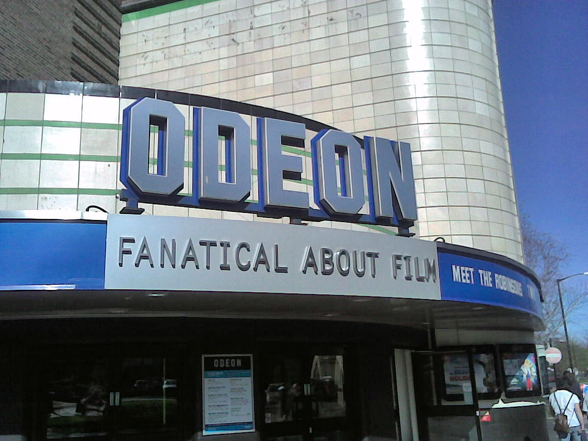 Part of the front of the Odeon cinema, Harrogate, North Yorkshire, England